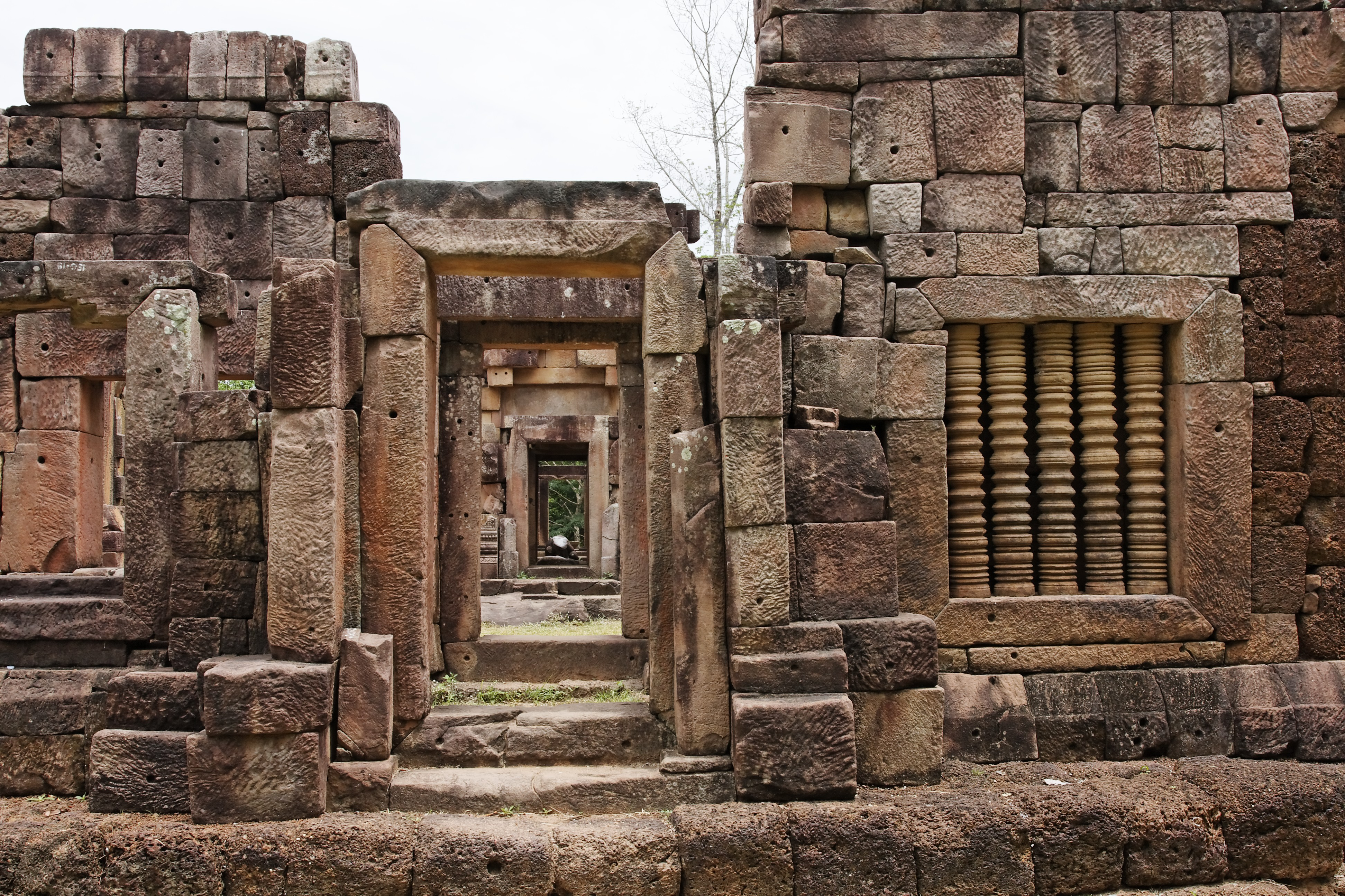 Prasat Ta Muen Thom, Thailand